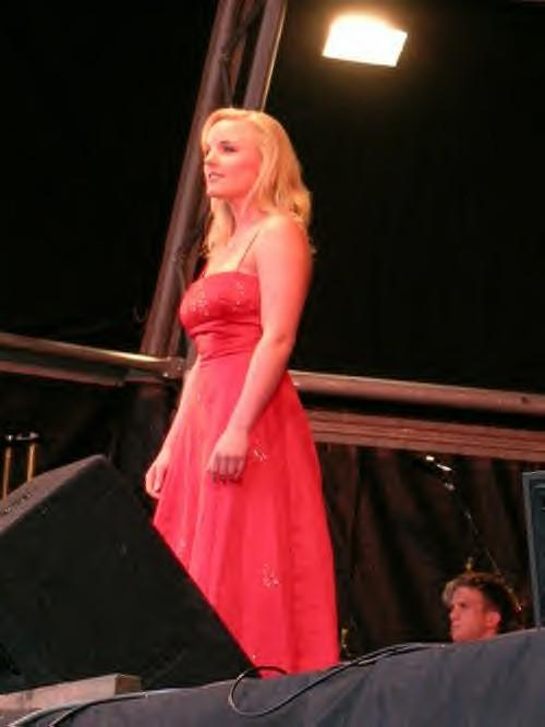 Kerry Ellis singing at a concert version of Jesus Christ Superstar as the female lead Mary Magdalene at Porchester Castle on 11 June 2004